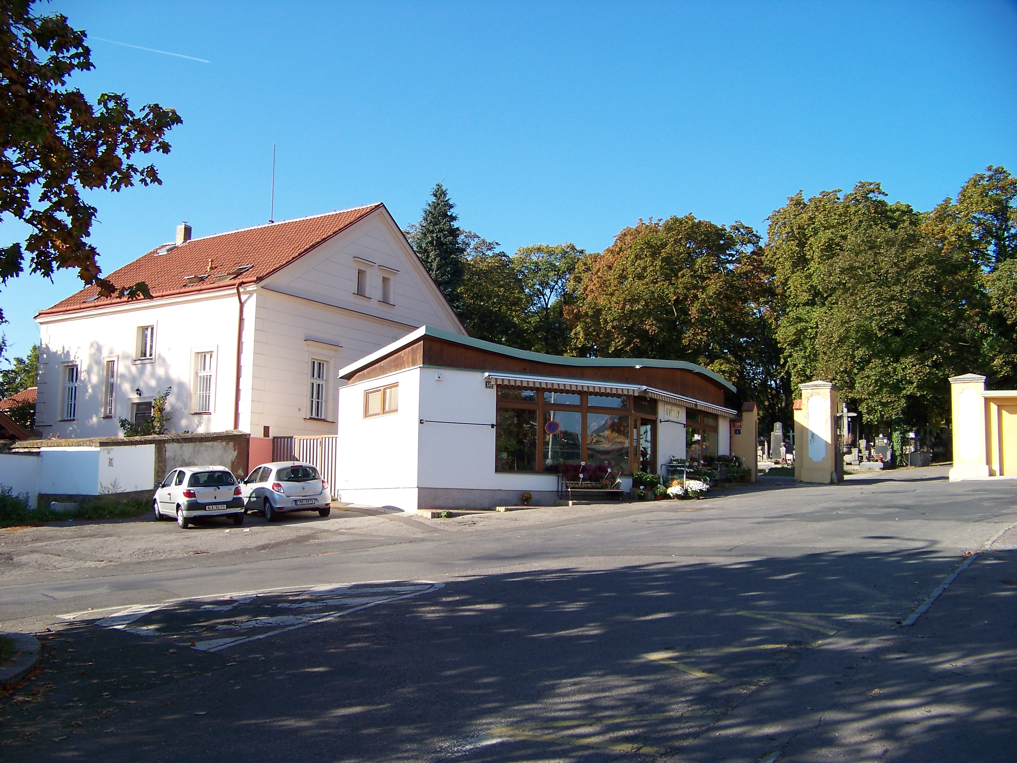 Prague-Smíchov, the Czech Republic. Na pláni and U smíchovského hřbitova street, the entry of Malvazinky Cemetery.